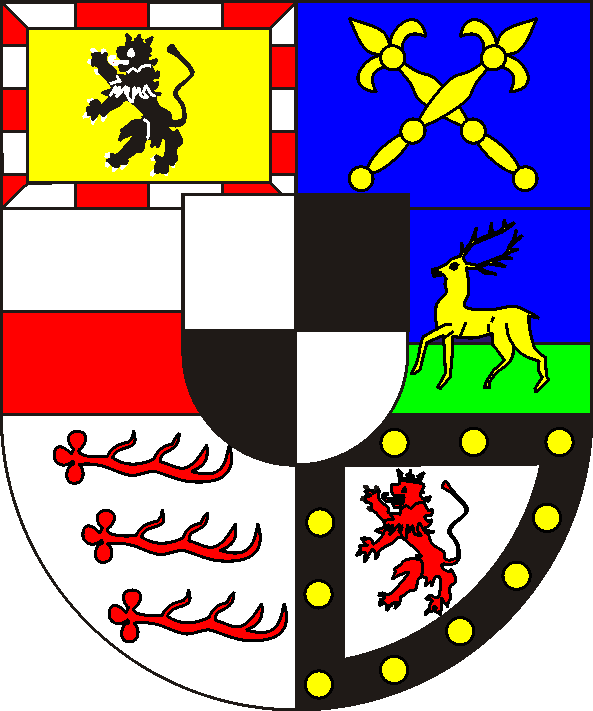 coats of arms of Hohenzollern 1: bourgraviat of Nürnberg; 2: imperial chamberlain; 3: county of Hohenberg; 4: county of Sigmaringen; 5: county of Veringen; 6: county of Bergh (NL); heart: county of Hohenzollern